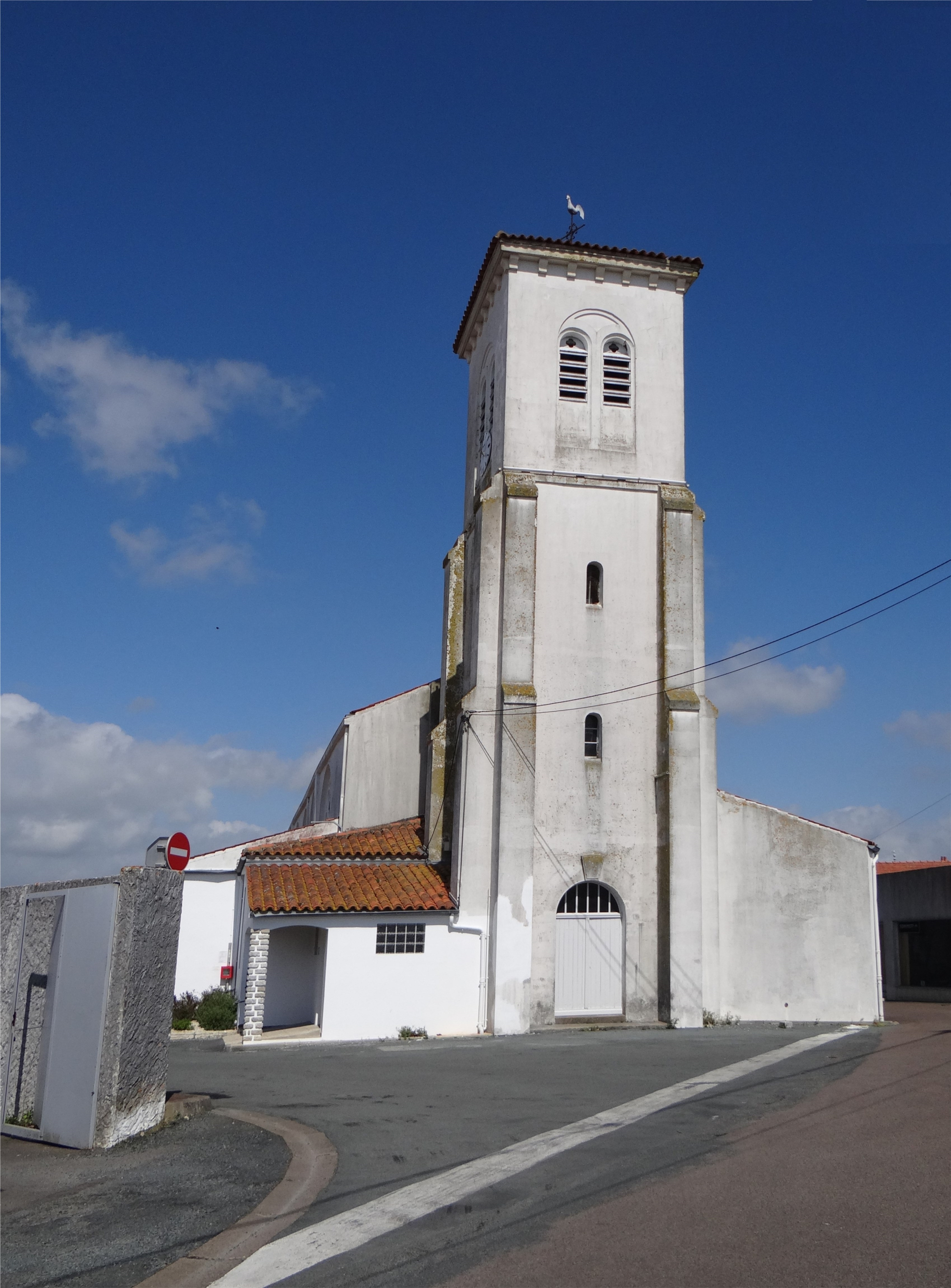 Church of St. Nicolas, L'Aiguillon-sur-Mer, Vendee, France.